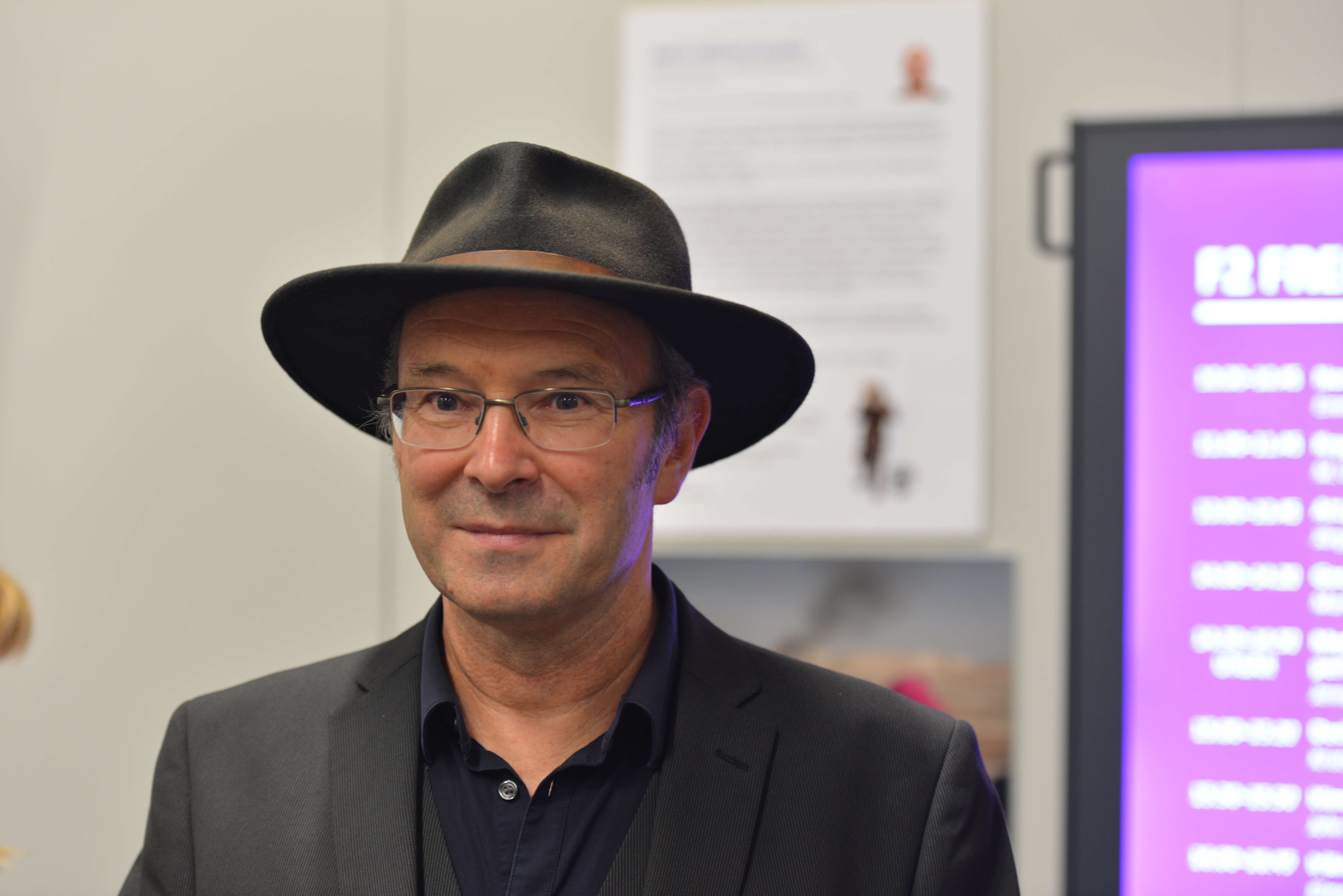 Irish writer Mike McCormack at Gothenbourg Book Fair september 2017